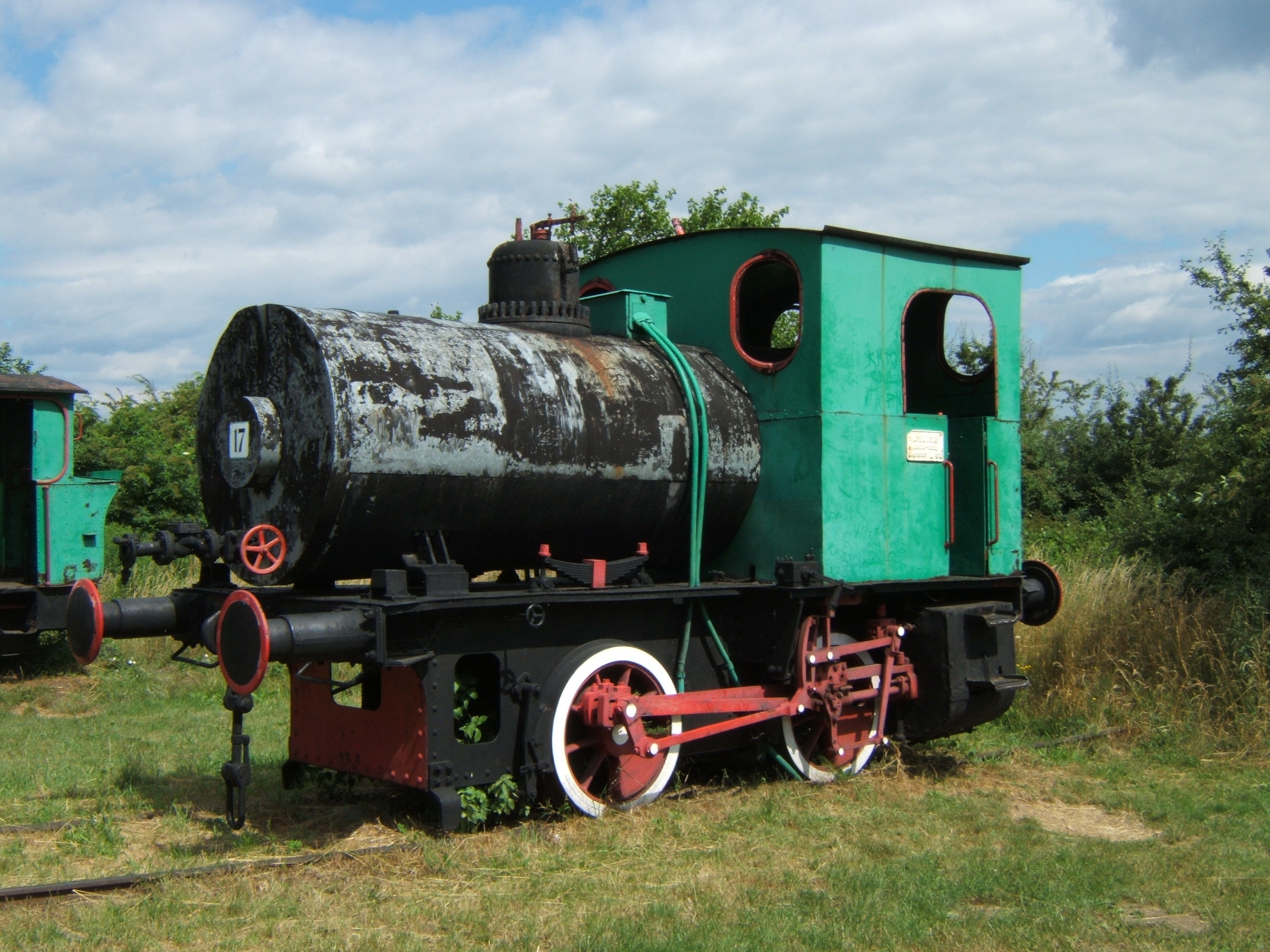 Narrow gauge steam locomotive, type WC, built in 1917. Exhibit of Steam Machines and Locomotives Heritage Park by historic mine in Tarnowskie Góry